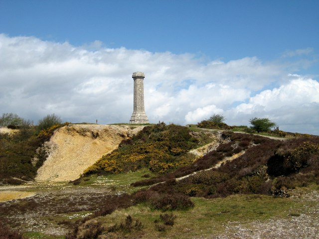 Hardy's Monument Built in 1842 at the top of Blackdown Hill to commemorate the life of Vice-Admiral Sir Thomas Masterman Hardy, Nelson's Flagship Captain. Hardy moved to Portesham with his parents in 1769 and first attended school in Crewkerne, Somerset. The monument is surrounded with heather and gorse and is built on very gravelly soil as the photograph shows. See also image Church Hall - blue plaque - .uk - 893912.jpg and Wikipedia article Sir Thomas Hardy, 1st Baronet.